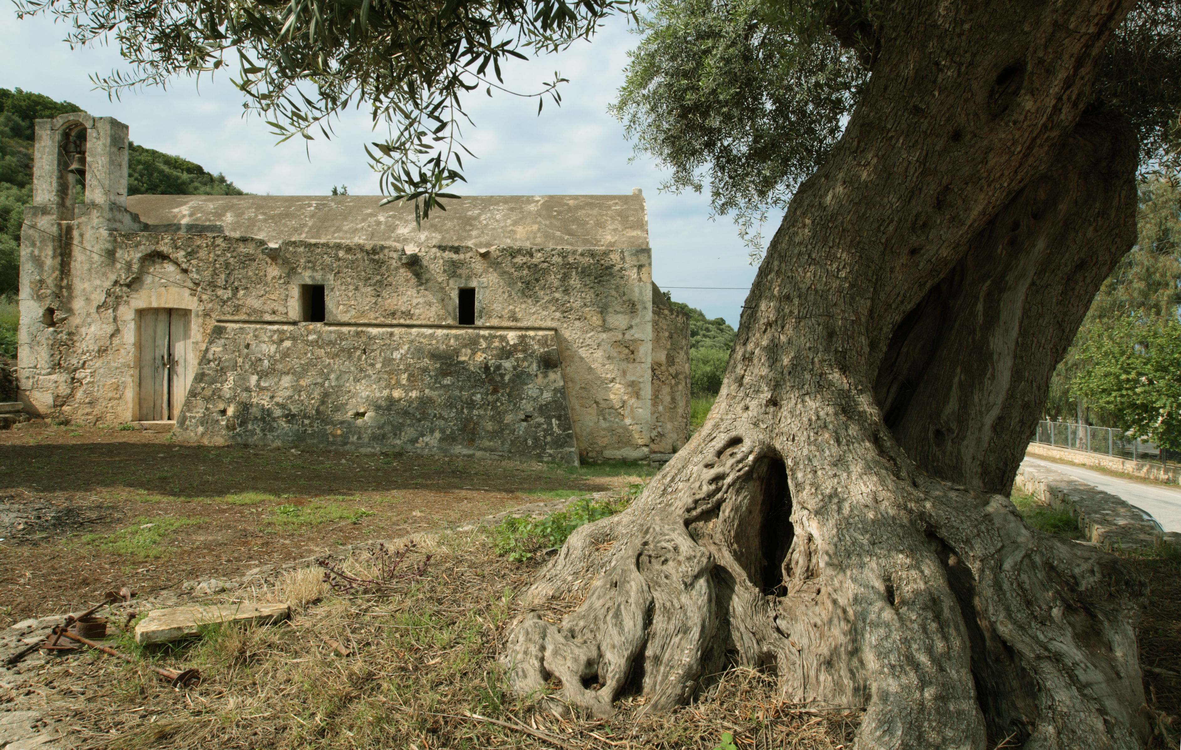 The Agios Ioannis Theologos Church in Stylos, Crete